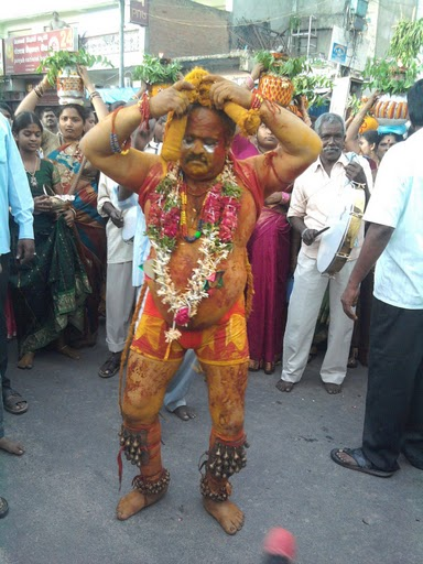 Potharaju during Bonalu Celebrations at Hyderabad